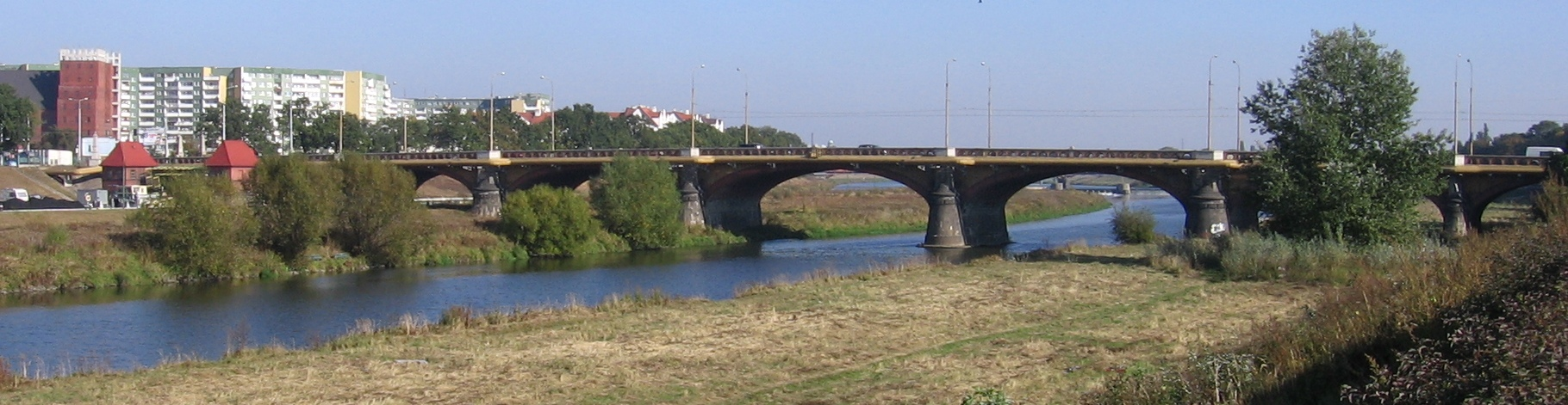 Wrocław, Poland Osobowicki Bridge, view from west far away, in background, seen under bridge span - Polanka Weir